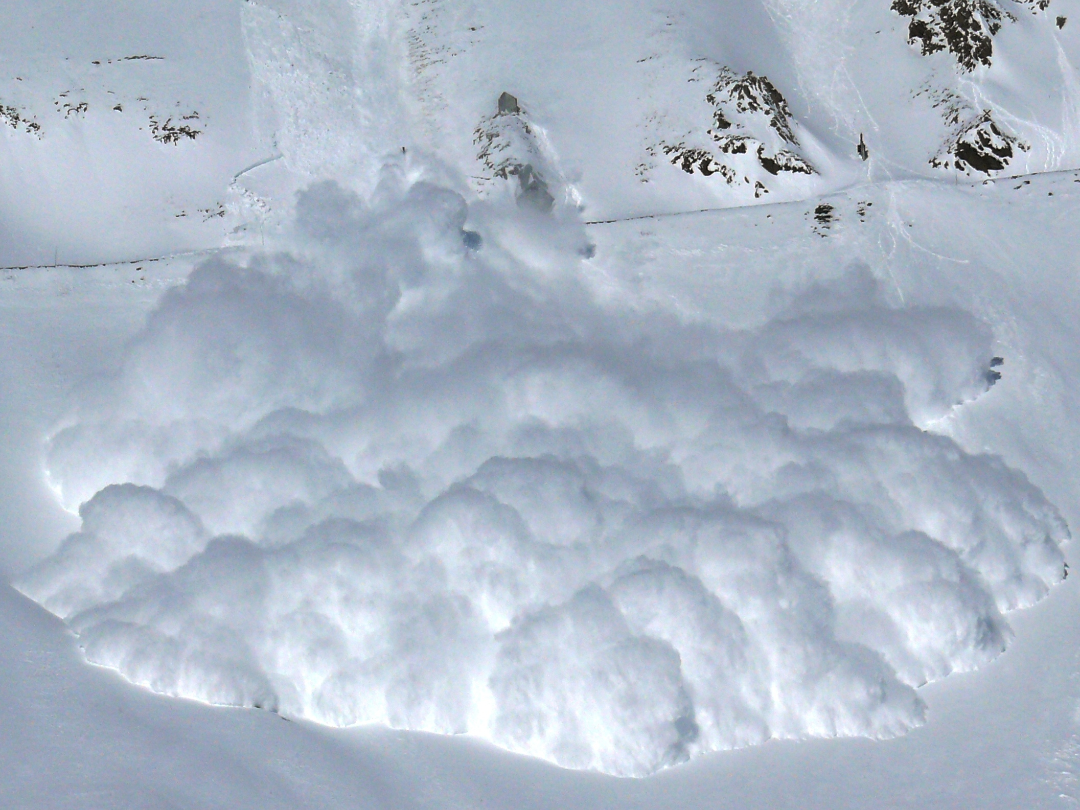 Small powder snow avalanche